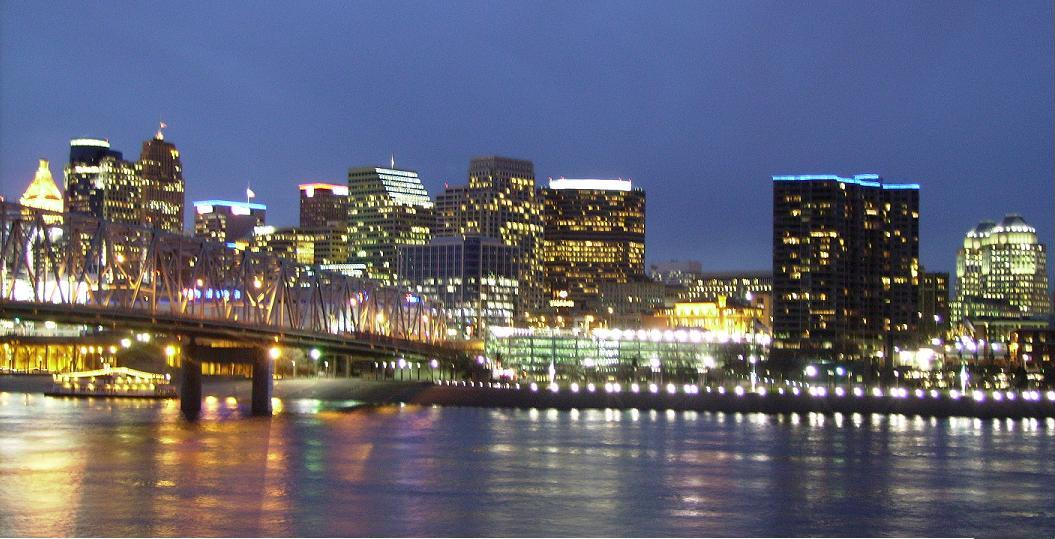 Downtown Cincinnati Skyline at dusk.